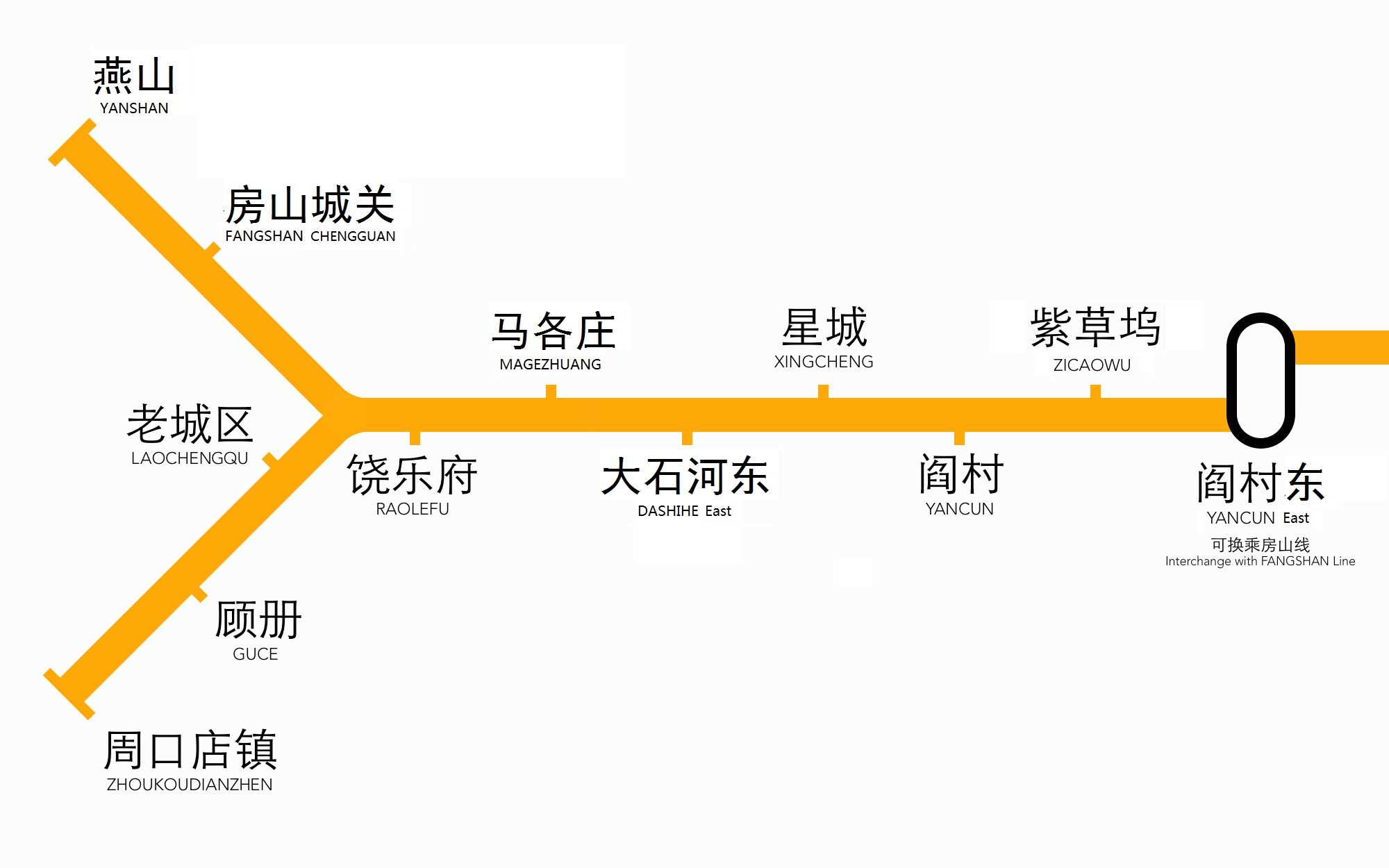 This is a diagram of the Yanfang Line.